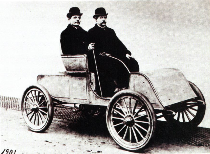 Brothers John and Jakob Wickström driving their Caloric II car in Chicago, 1901.